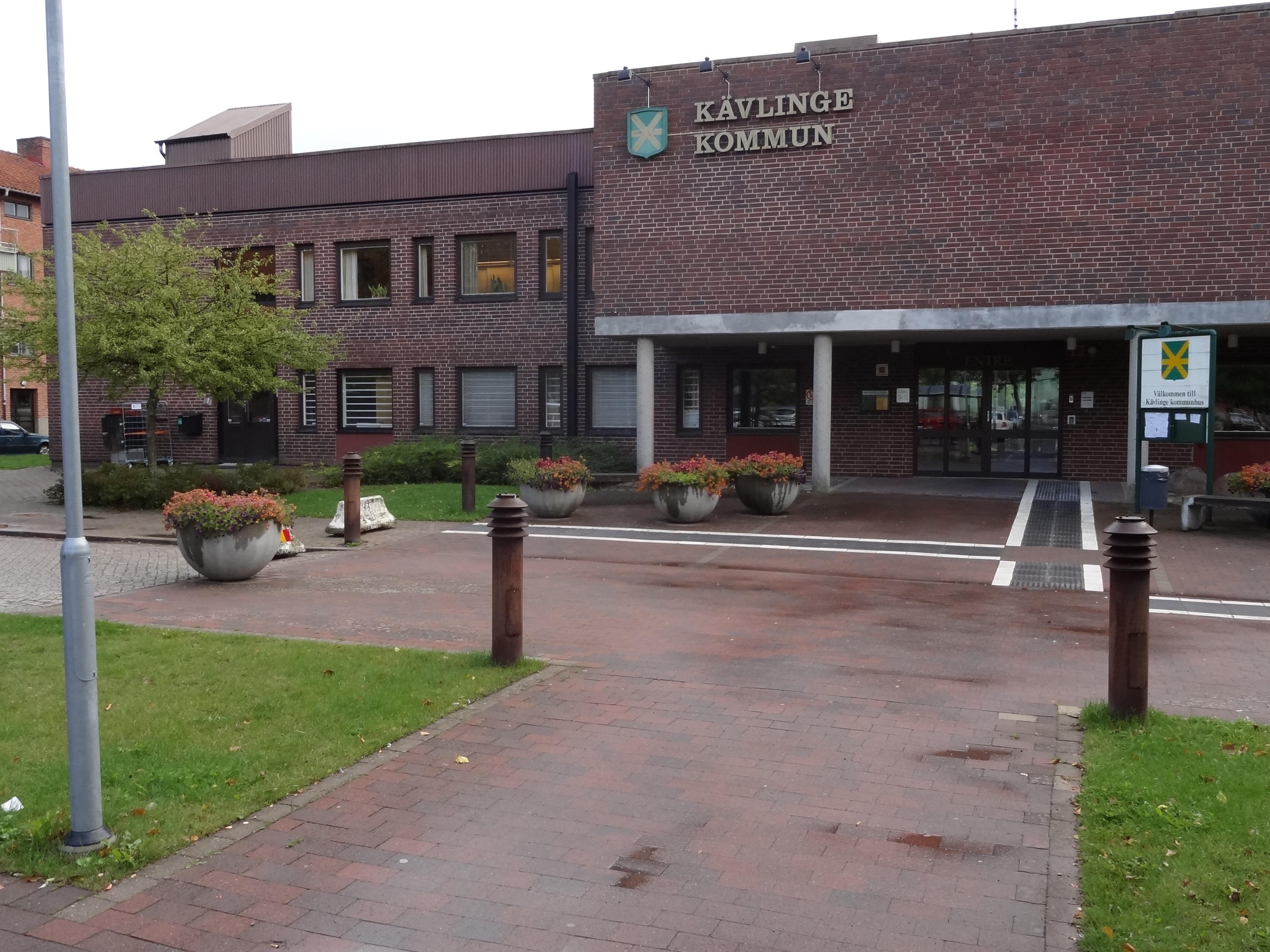 Kävlinge municipal building